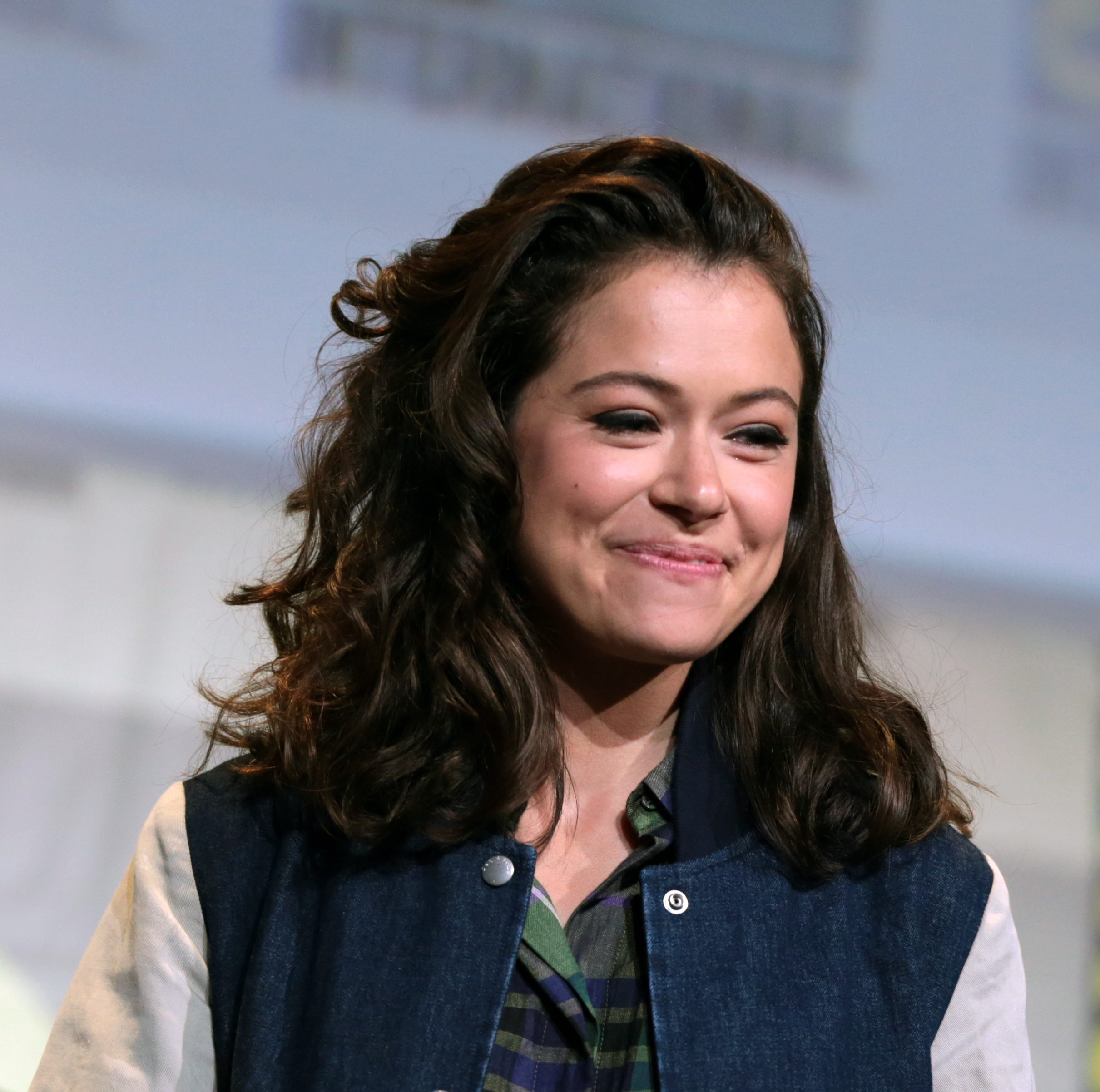 Tatiana Maslany speaking at the 2016 San Diego Comic Con International, for "Entertainment Weekly: Women Who Kick Ass", at the San Diego Convention Center in San Diego, California.